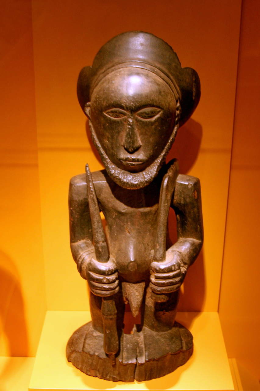 Male figure, Hemba peoples, Niembo chiefdom, Democratic Republic of the Congo, Late 19th to early 20th century, Wood, plant fiber, glass beads Among the Hemba peoples, carved wooden figures represent male ancestors who were venerated and linked to ownership of the land and to clan and lineage authority. They convey notions of ideal physical and moral qualities. Although these are said to depict particular ancestors, the figures are portrayed with generalized traits rather than individual, distinguishing characteristics. Both figures have well-balanced forms, refined and serene facial features and markers of gender, status and achievement. Each has an elaborate cruciform coiffure and a carefully rendered beard. One carries a warrior's lance and an adze and wears a narrow bracelet of authority. Both are meant to recall the political and military roles filled in the past by great men. (National Museum of African Art)